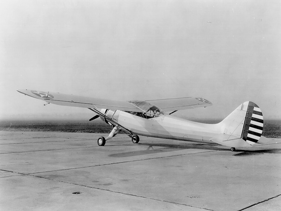 The Stinson 0-49 was used in diverse roles such as towing training gliders, artillery spotting, liaison, emergency rescue, transporting supplies, and special espionage flights.